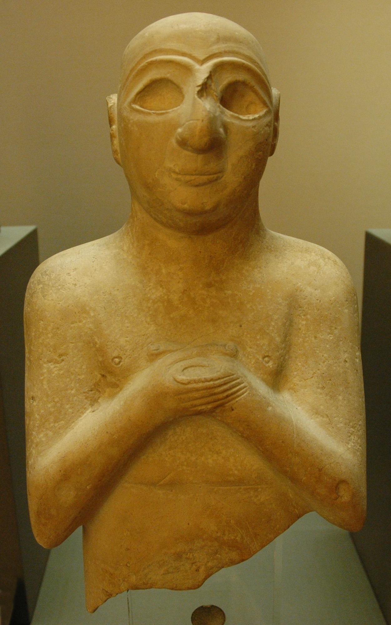 Statue bearing an inscription on the back: "Satam, son of Lu-Barab, son of Lugal-kisal-si, king of Uruk, servant of Girim-si, prince of Uruk". Limestone, Early Dynastic III, ca. 2400 BC.